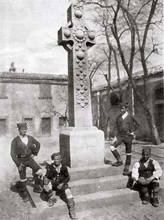 Contadini della Ducea Nelson posano ai pie­di della croce celtica innalzata in onore del­l'am­miraglio Nelson nel pri­mo cor­tile in­ter­no del Ca­stello (foto pubbli­cata nel 1903 dalla rivista lette­raria inglese The Pall Maga­zine. (Peasantry of the Duchy of Bronte posing at the foot of a Celtic cross in the inner courtyard (of Castello di Maniace) erected (by Sir Alexander Nelson Hood, 5th Duke of Bronté (1904–1937)) in honour of Horatio Nelson, 1st Duke of Bronté, 1st Viscount Nelson (1758–1805). At Maniace the 5th Duke erected a large Ionian or Celtic cross, made of local black lava from Mount Etna, in memory of Admiral Lord Nelson and inscribed on the base Heroi Immortali Nili ("To the immortal hero of the Nile"), the Battle of the Nile having particular significance in the saving of the Kingdom of Sicily and Naples from Napoleonic conquest. This resulted from a complaint by his aunt Jane Sarah Hood (Lady Hotham) when visiting, that no monument existed, to which the Duke replied in jest that Wren's epitaph in St Paul's Cathedral states Si monumentum requiris circumspice[1] ("if you seek his monument look around you").